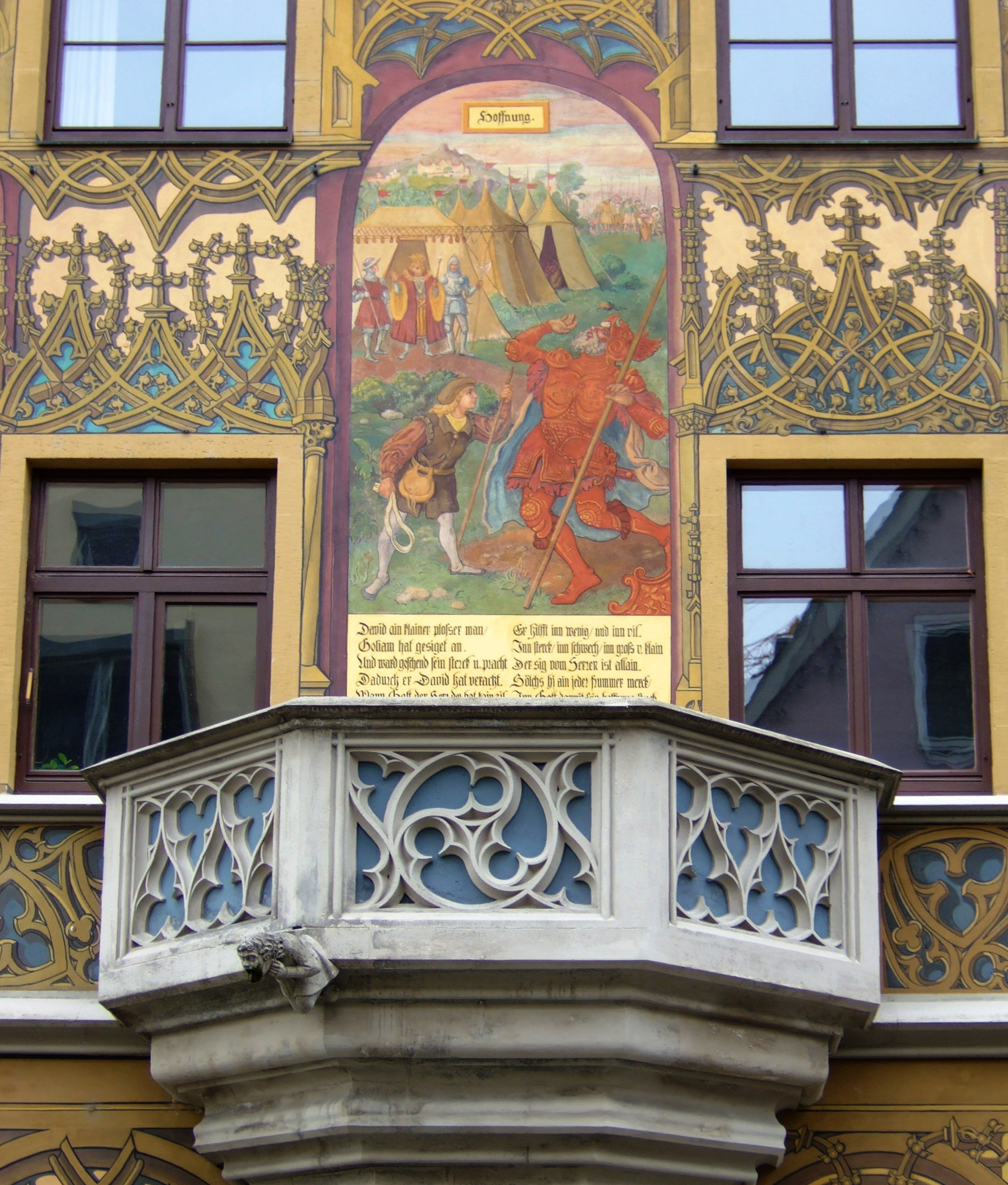 Mural Painting and pulpit at the town hall of Ulm/Germany